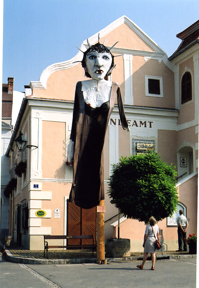 Town hall of Pulkau, with giant folkore object (witch?) in 2005, Lower Austria.